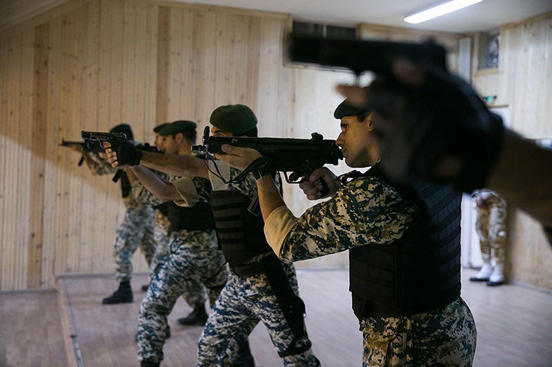 Commandos of 65th Airborne Special Forces Brigade of Iran exercising.